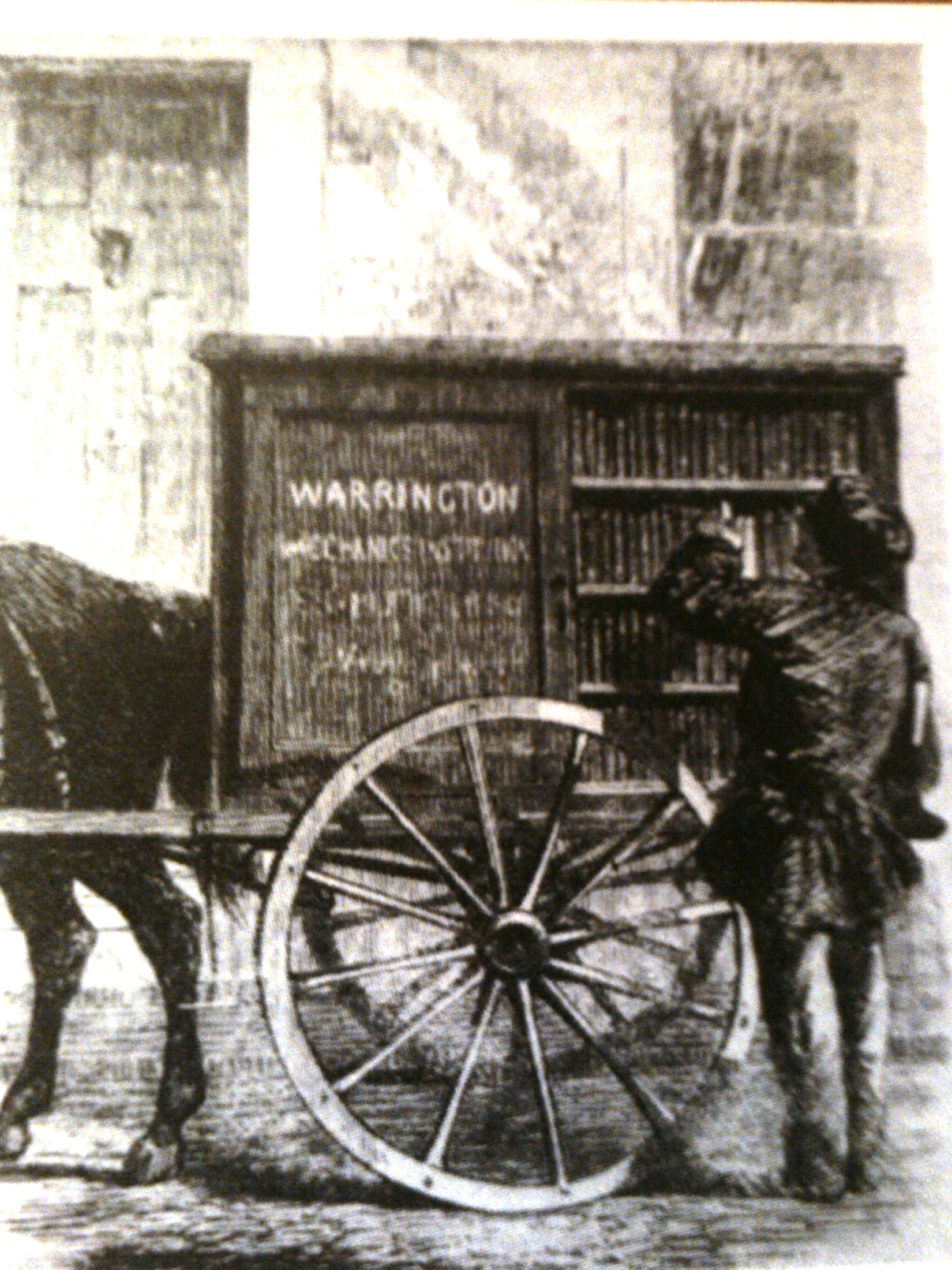 A picture of the first? UK mobile library on Warrington which started in 1858